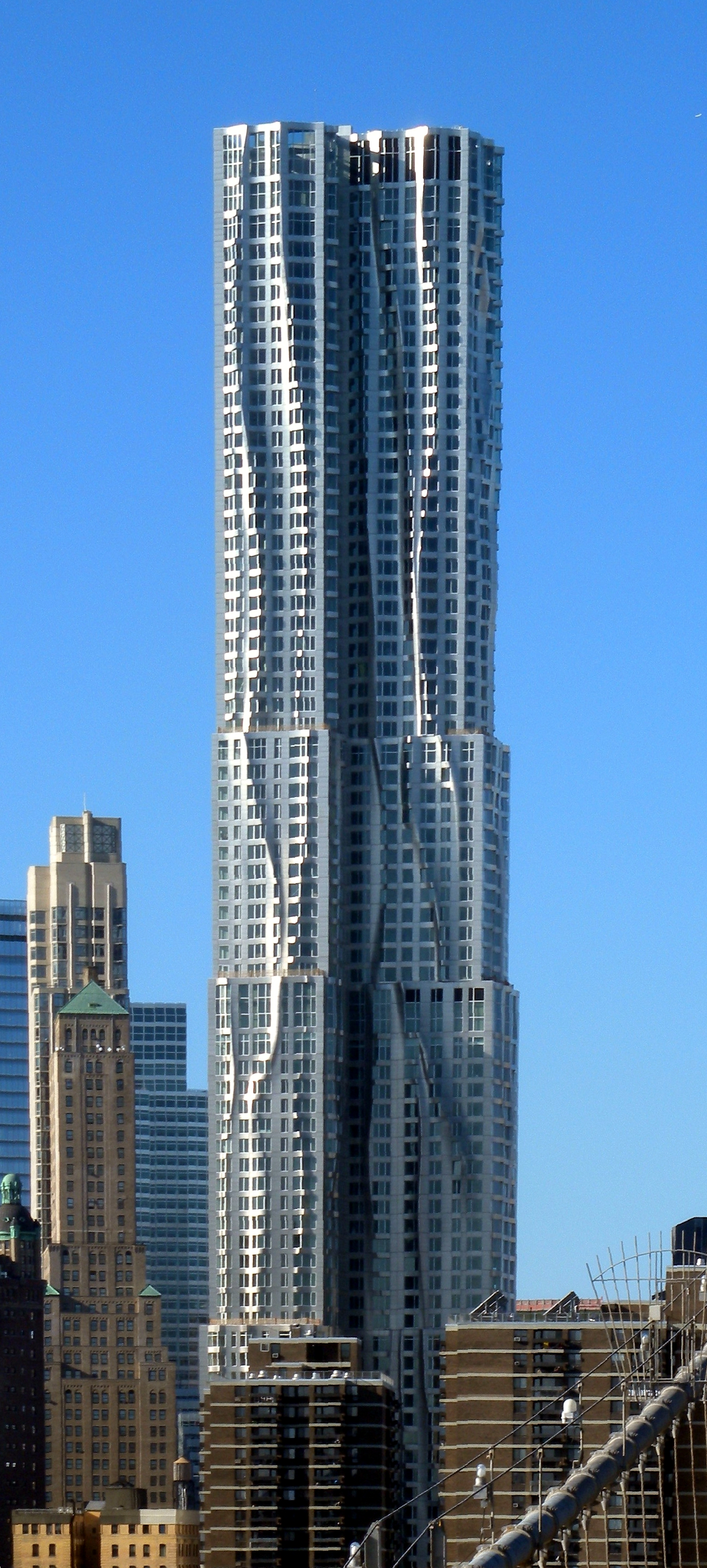 Looking west from walkway of Brooklyn Bridge at Beekman Tower on a sunny midday.